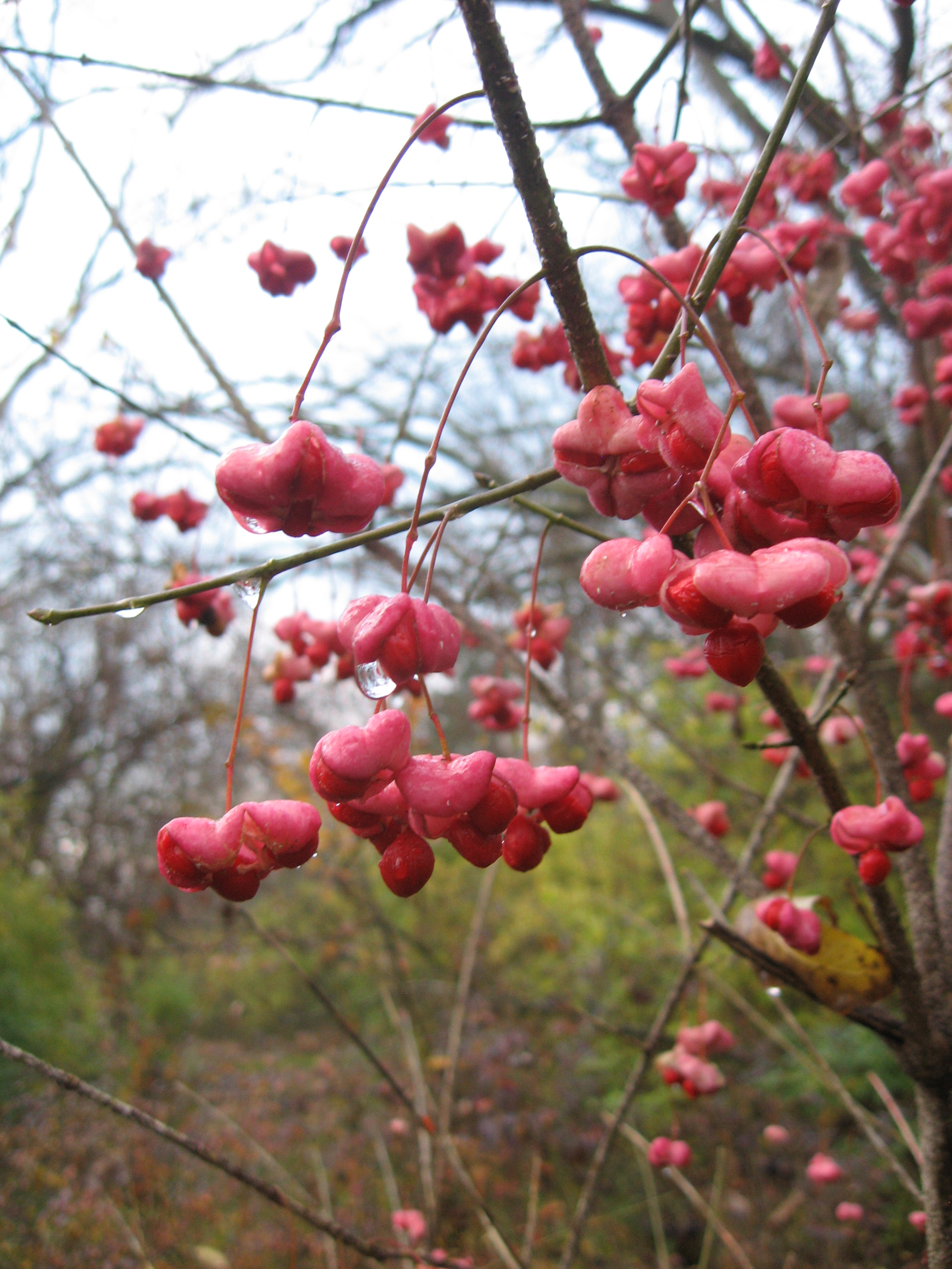 Euonymus atropurpureus fruit. Lake Reba, Madison County, Kentucky